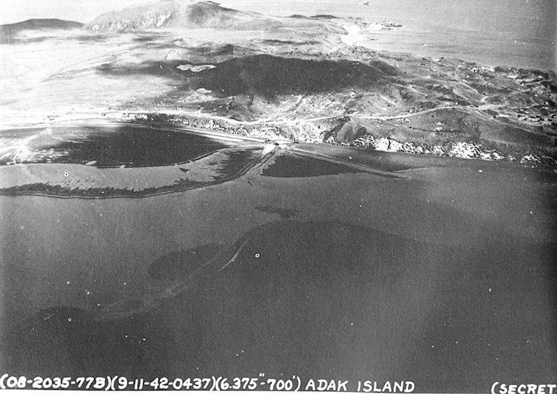 Longview Army Airfield, Adak Island, Alaska, 11 September 1942